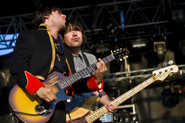 Dirty Pretty Things performing at the Redbourn Festival on August 11th 2007 Photograph taken by Stuart Leech.